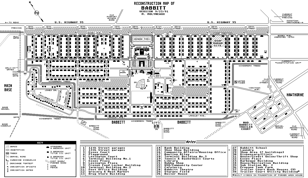 Recreation of town layout.